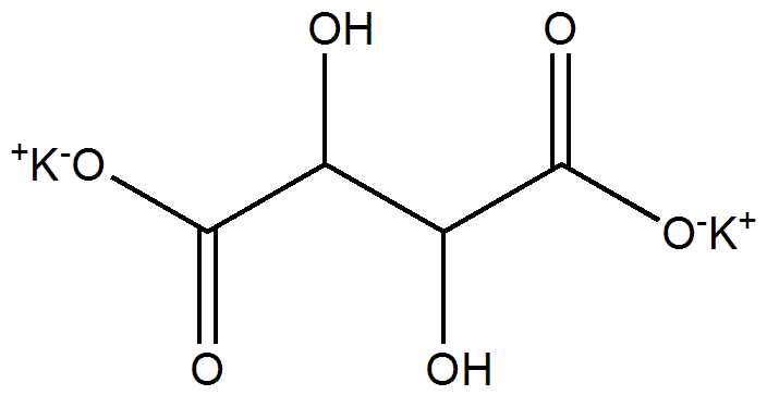 Chemical structure of potassium tartrate.